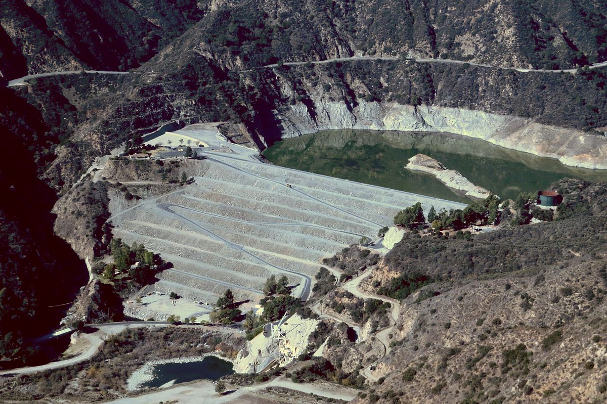 San Gabriel Dam in Los Angeles County, California, seen from Glendora Mountain Road. Reservoir is at low water after two years of drought.